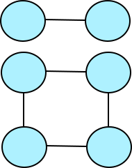 cograph example